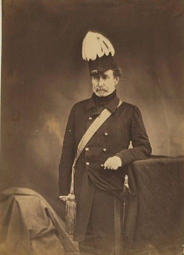 Sir Colin Campbell, 1st Baron Clyde (1792-1863), Scottish soldier